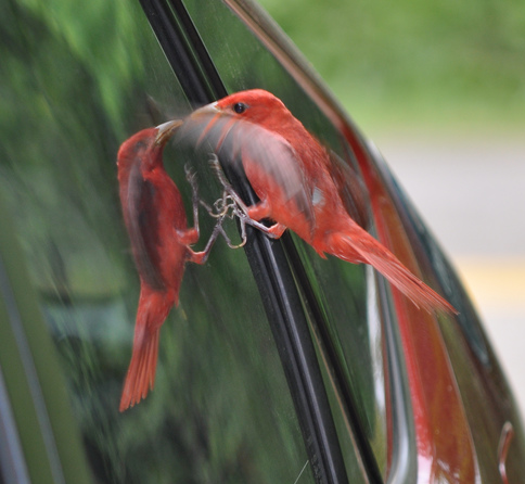 A Summer Tanager Piranga rubra fighting against its own reflection visible in an automobile window